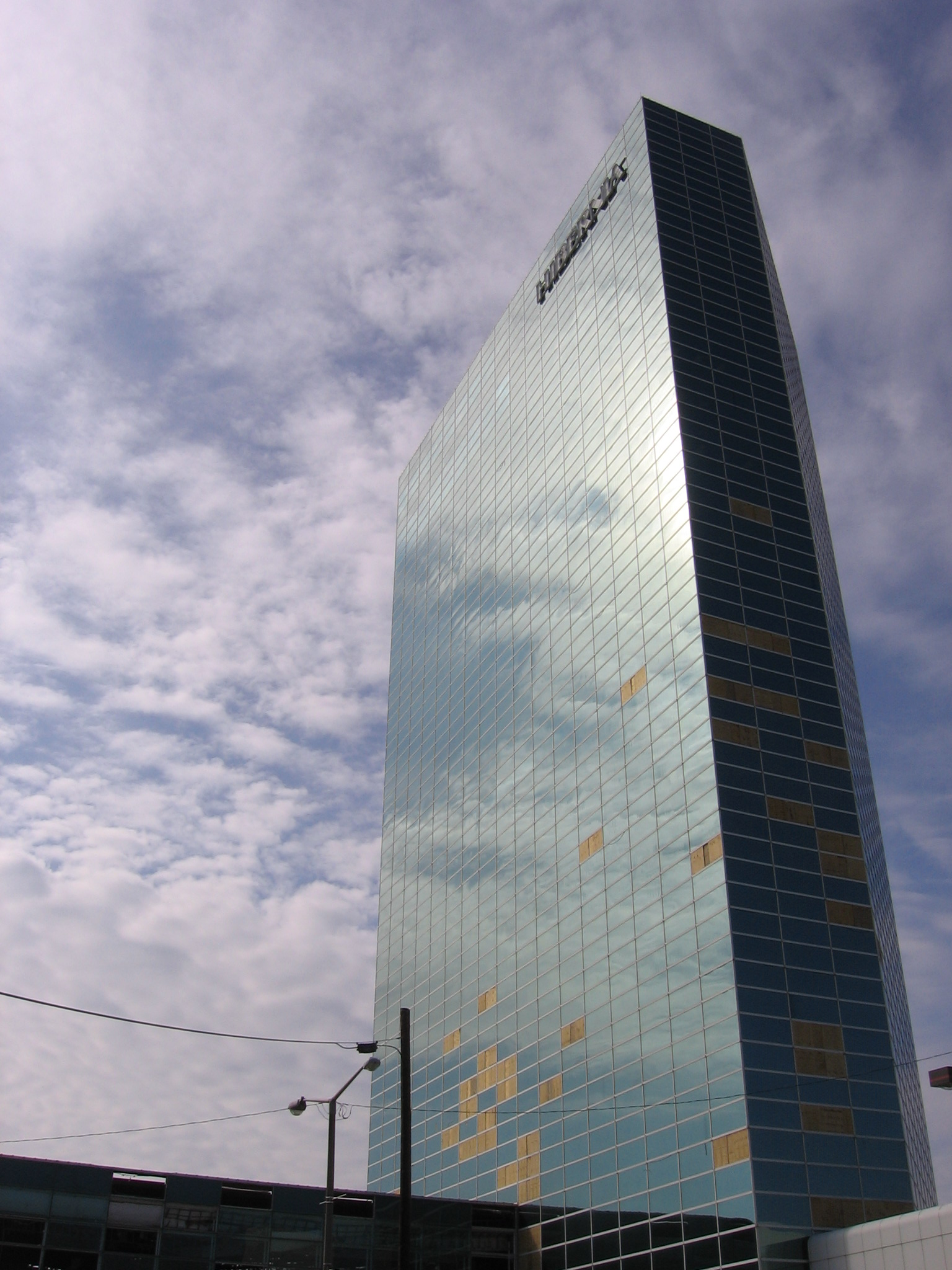 Capital One Tower (formerly Hibernia)in downtown Lake Charles after Hurricane Rita